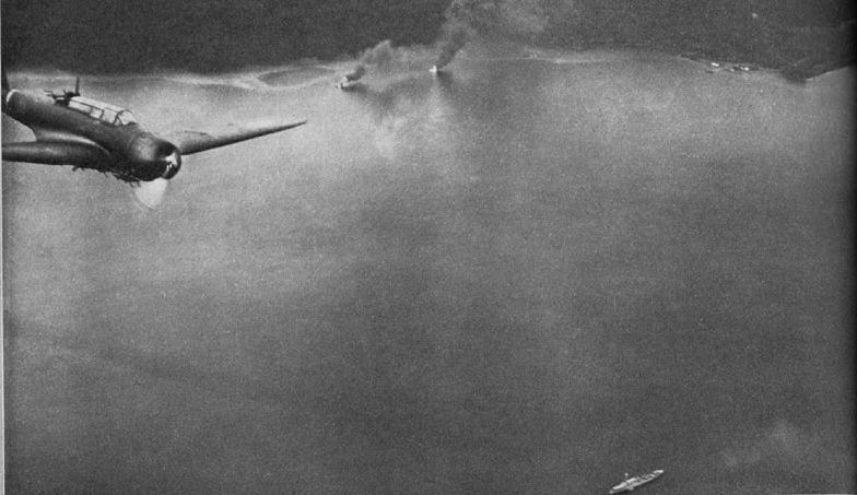 A Japanese Nakajima B5N1 (Type 97 Kankō, Carrier Attack Bomber) from the aircraft carrier Ryūjō flies over the U.S. Navy seaplane tender USS William B. Preston (AVD-7) in Malalag Bay, Mindanao, Philippines, during the early morning of 8 December 1941. Two Consolidated PBY-4 Catalinas (101-P-4 and 101-P-7) from Patrol Squadron 01 (VP-101), Patrol Wing 10, are burning off shore.